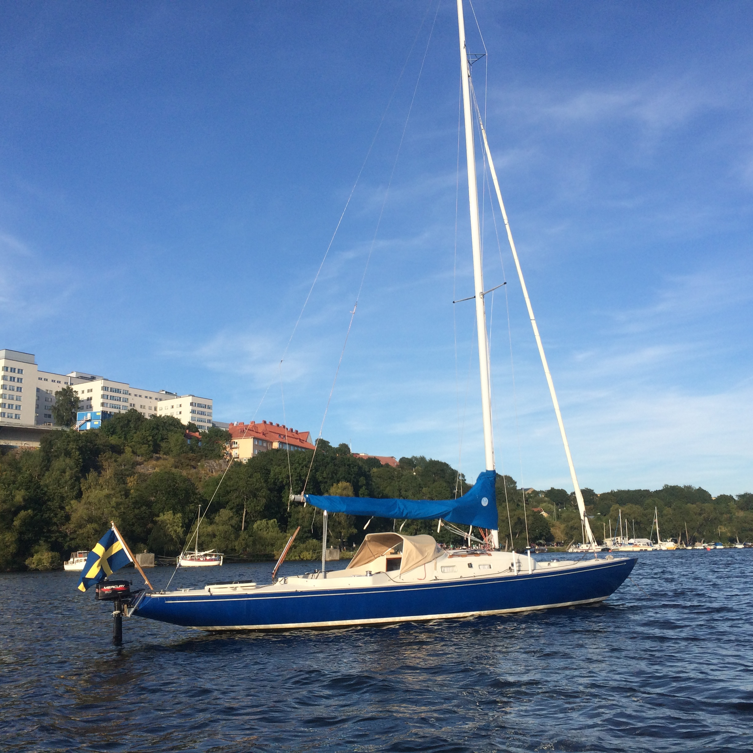 Swedish sailboat of the make Rapid